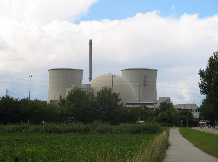 The Atomic power plant in Biblis, Germany